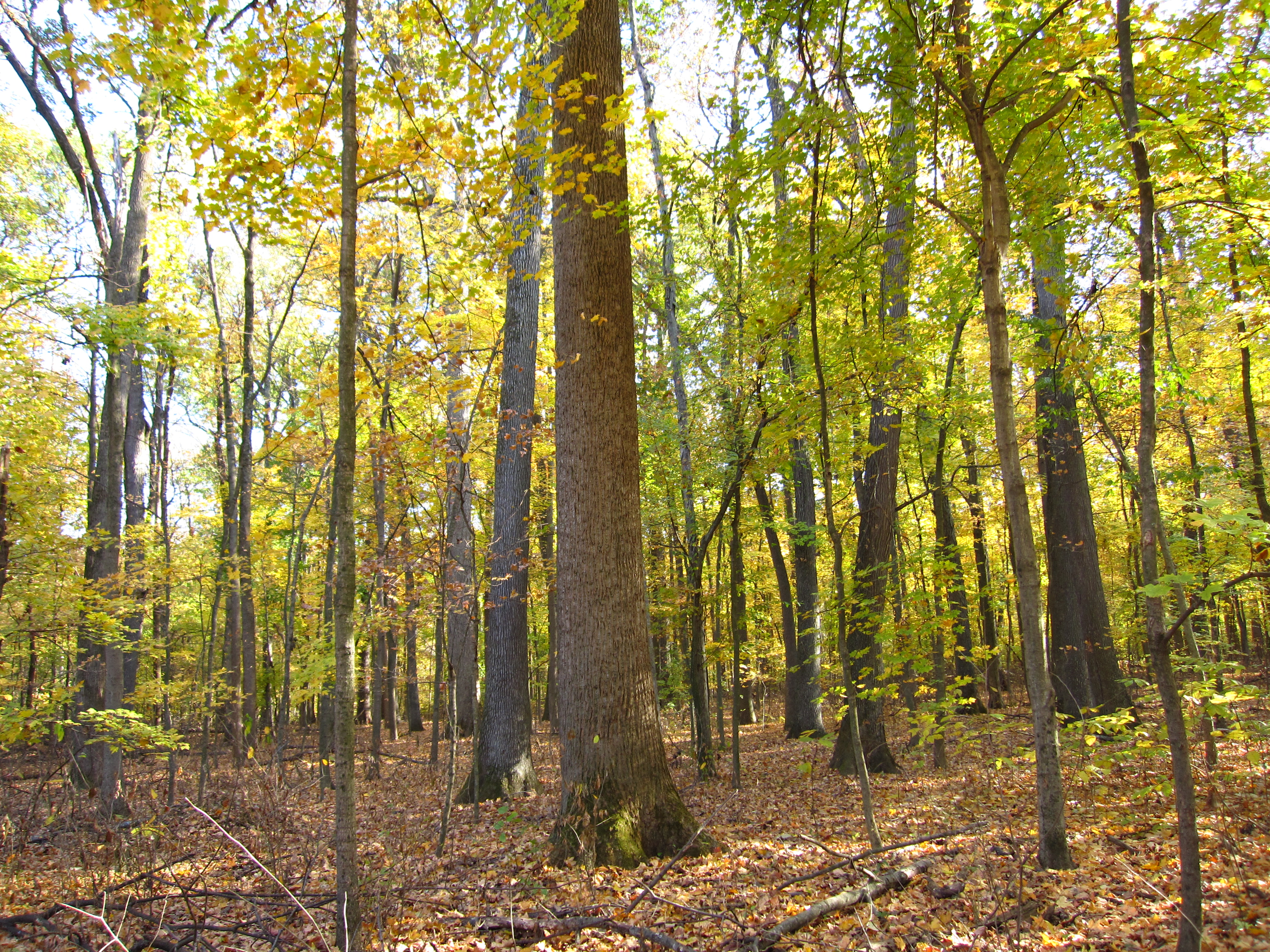 "Old Growth forest" at Wesselman Woods Nature Preserve at Evansville, IN